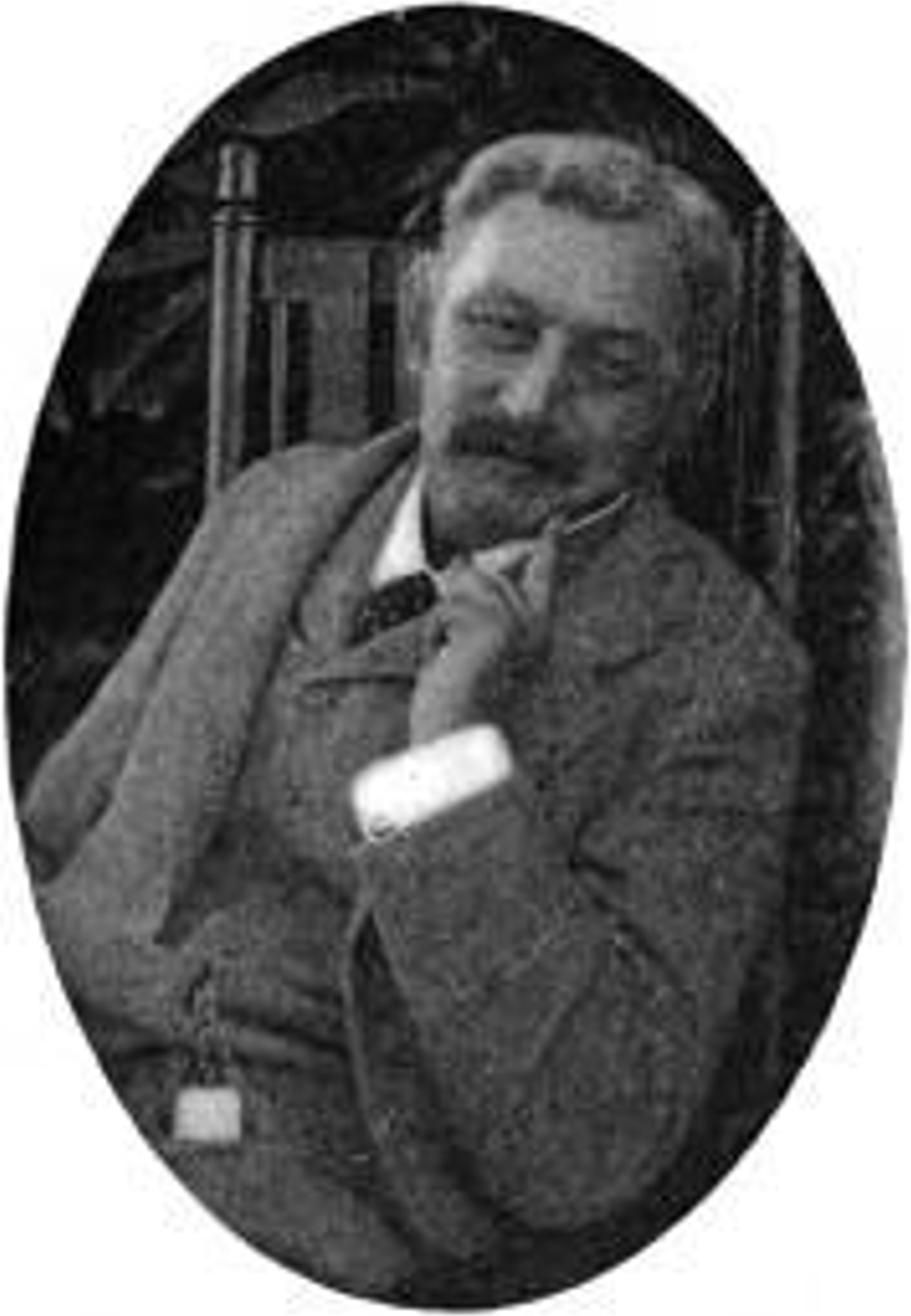 Rev. William Boyd, composer of "Fight the Good Fight" hymn.